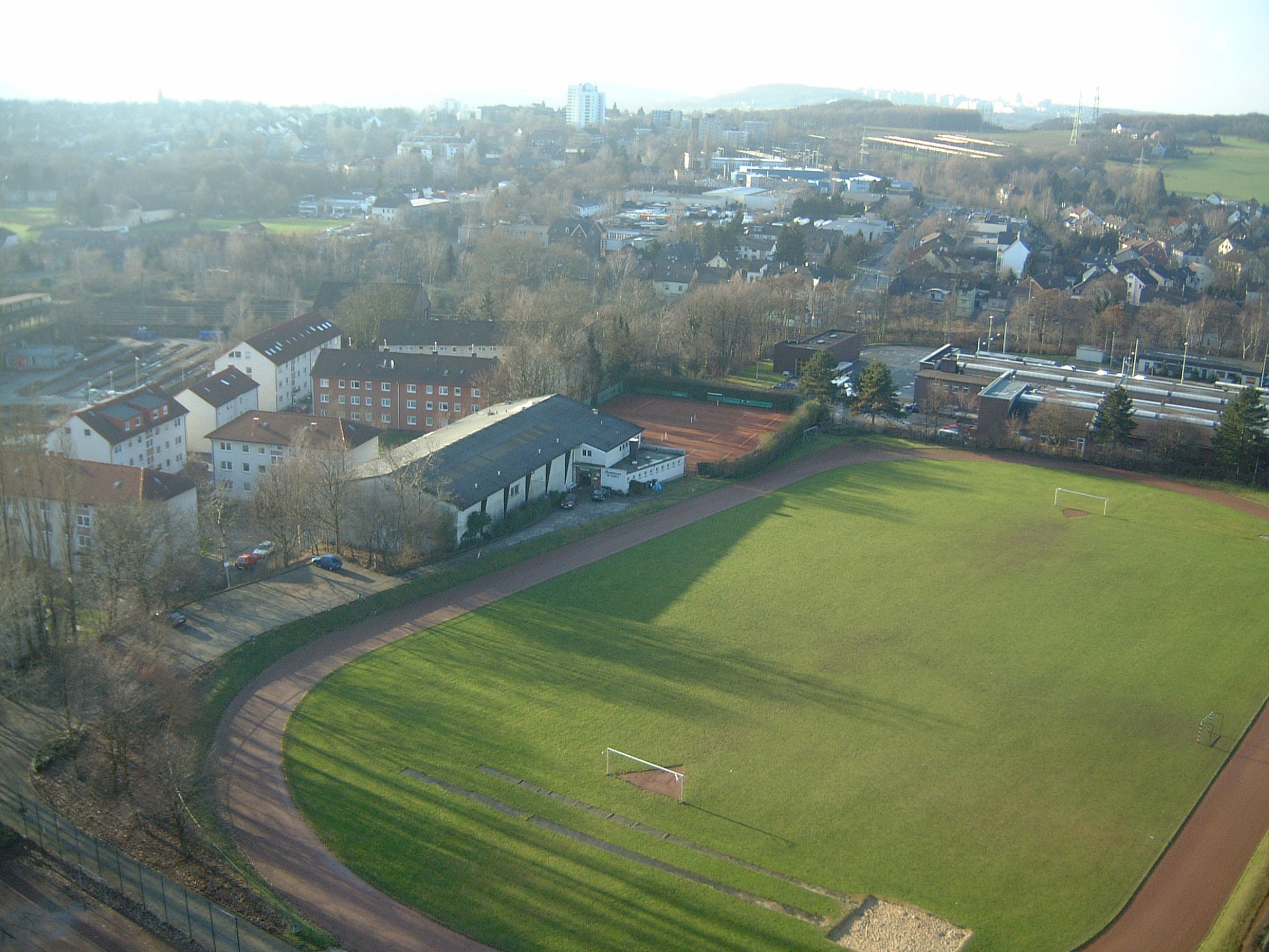 Jahnsportgelände (Jahn sports center) in Witten